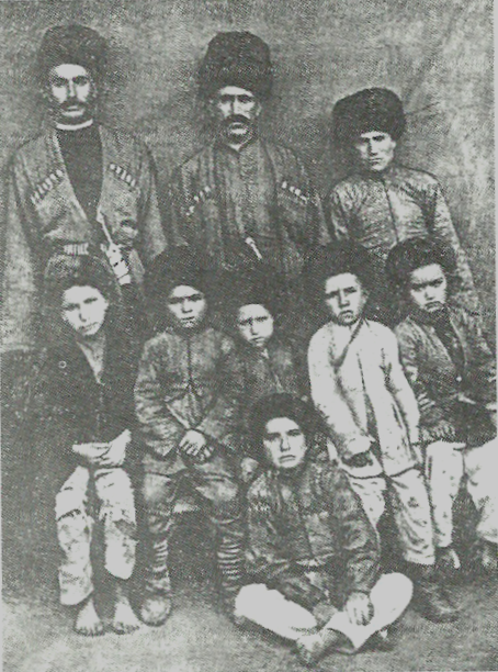 Buduq village in early 20th century. Buduq’s in their national clothes.